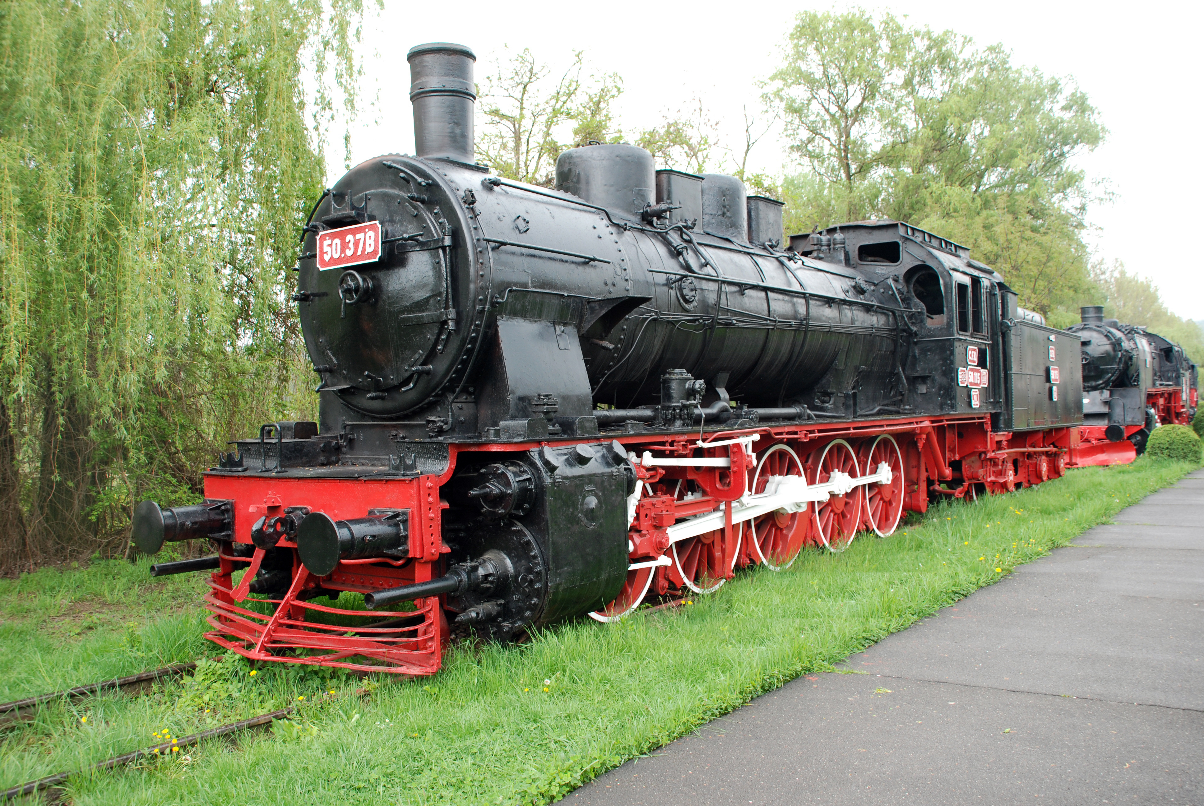 CFR 50.378 steam locomotive